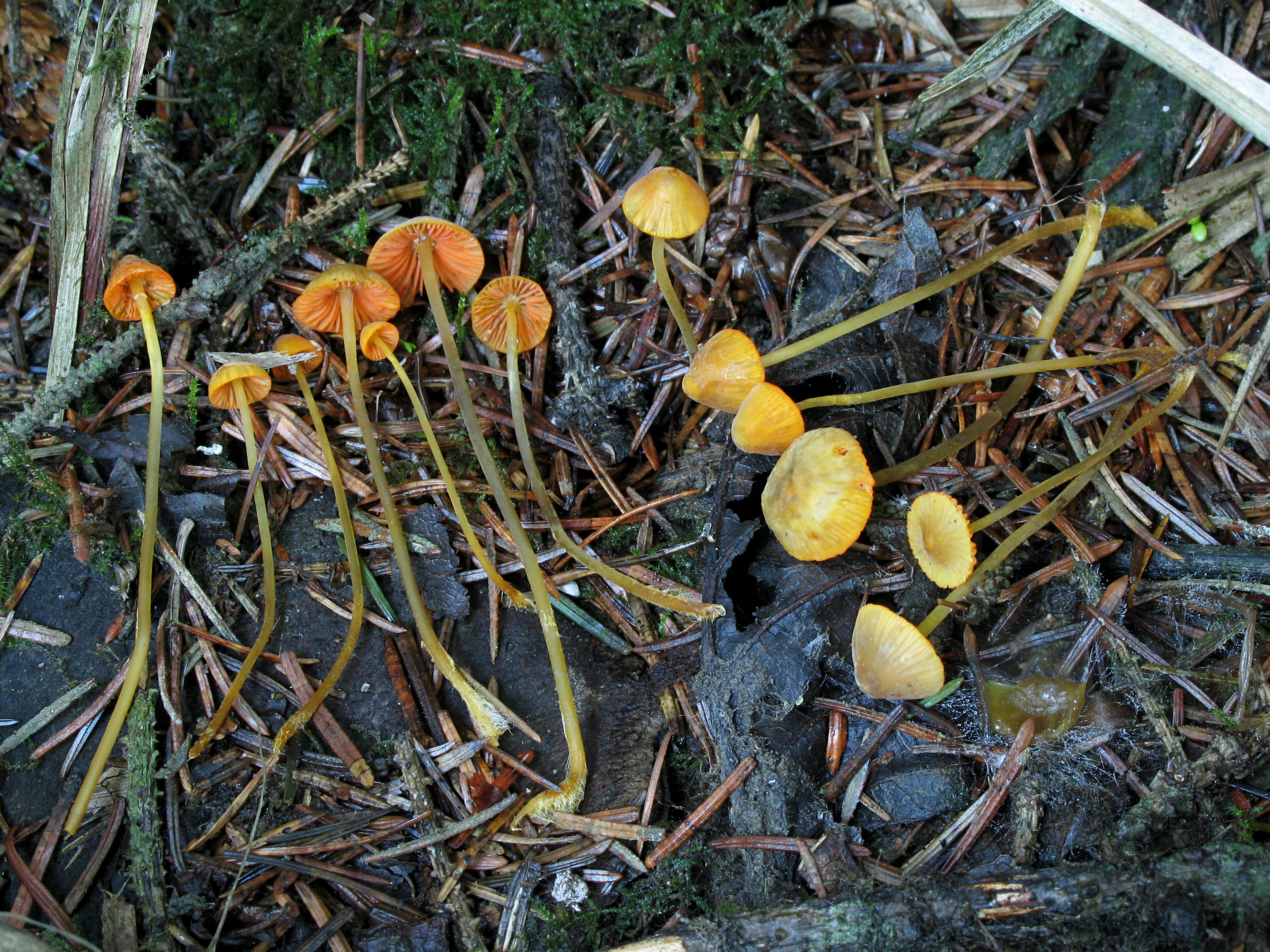 Mycena aurantiomarginata (Fr.) Quél. Image location: Prairie Creek Redwoods State Park, Humboldt Co., California, USA Growing with Abies grandis duff and moss off the side of the road. Recognized by sight For more information about this, see the observation page at Mushroom Observer.